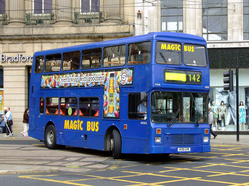 Stagecoach Manchester 15038 (H138 GVM), a Dennis Dominator/Northern Counties Palatine I, in Manchester on route 142.